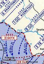 Soviet Advances 13 December 1942 to 18 February 1943. Webpage: World War II File is under US Government Copyright